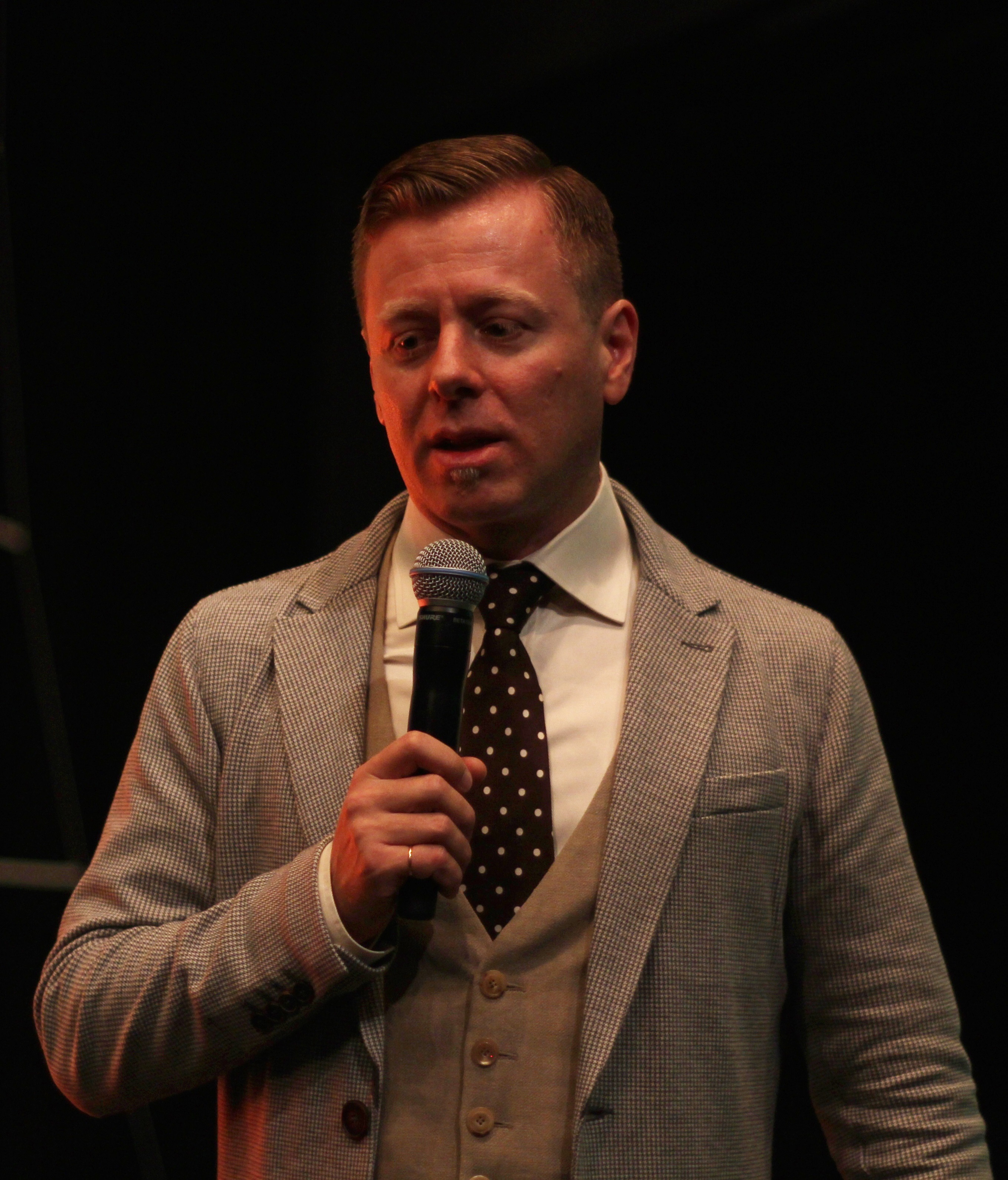 Polish composer Abel Korzeniowski during Q&A pannel at Film Music Festival in Cracow.